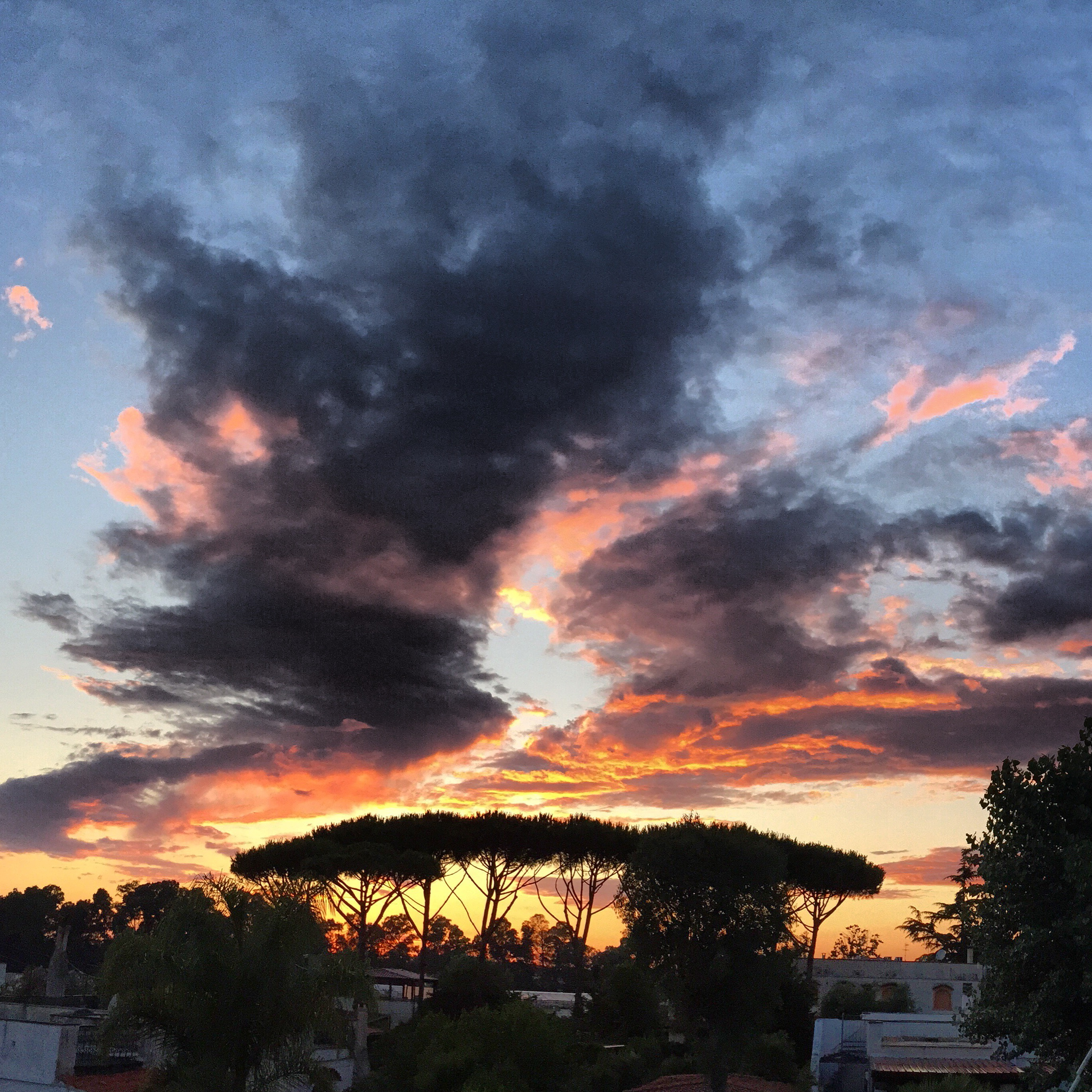 Borgo Hermada, tramonto.